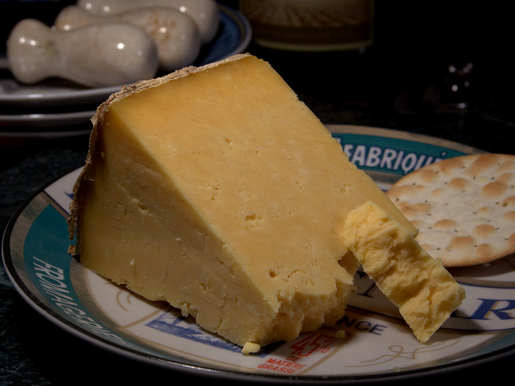 Cheshire cheese